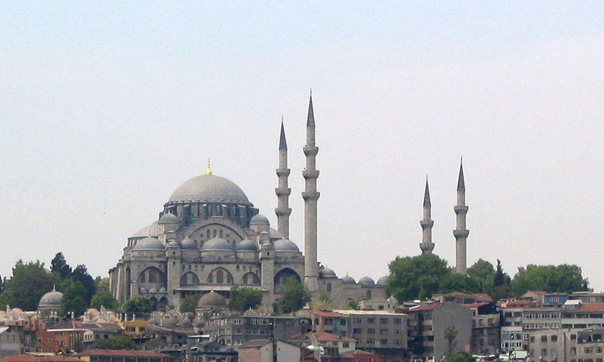 Süleymaniye Mosque in Istanbul, Turkey.